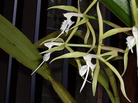 A work released per the GNU Free Documentation License by: Martín Javier Battiti de Tegucigalpa, Honduras